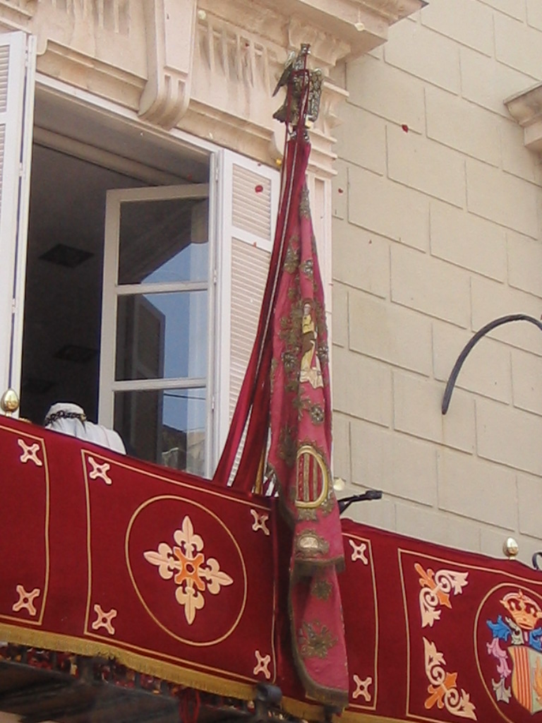 Gloriosa ensenya de l'Oriol, penjada al balcó del ajuntamient a Oriola, Comunitat Valenciana, Espanya.